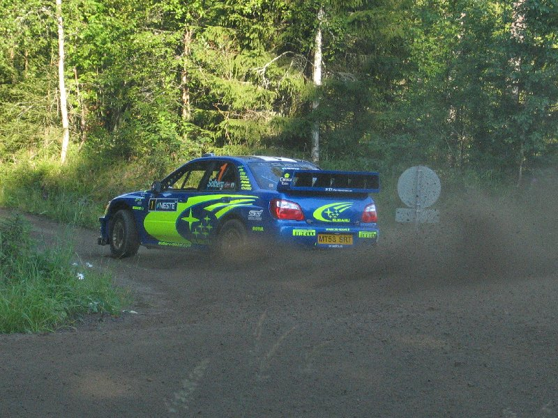 Petter Solberg driving his Subaru Impreza WRC2004 at the 2004 Rally Finland.